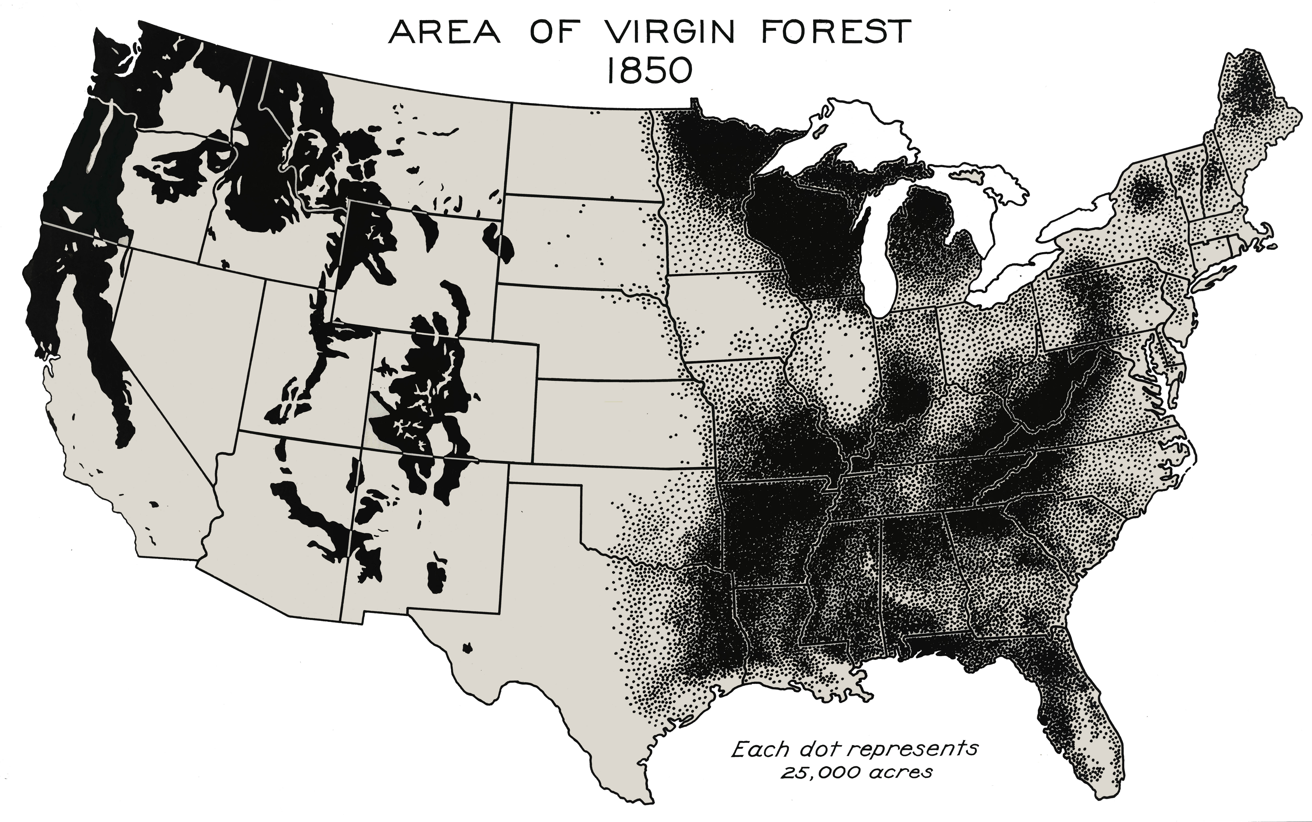 Forests never harvested by European settlers or their descendants, 1850.